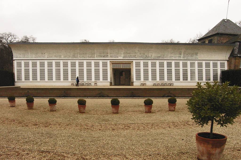 Schloss Dyck, orangery